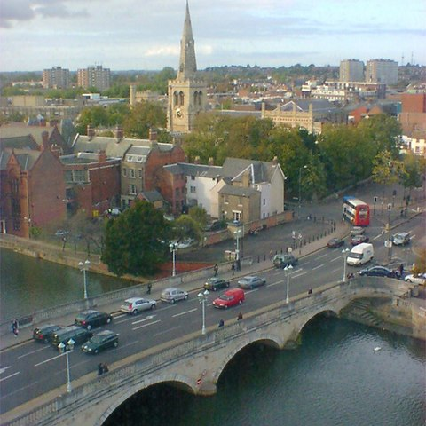 Bedford - St.Paul's Church and Town Bridge, near to Bedford, Bedfordshire, Great Britain. Photograph taken from what was the Bedford Moat House Hotel, now the Park Inn Hotel.